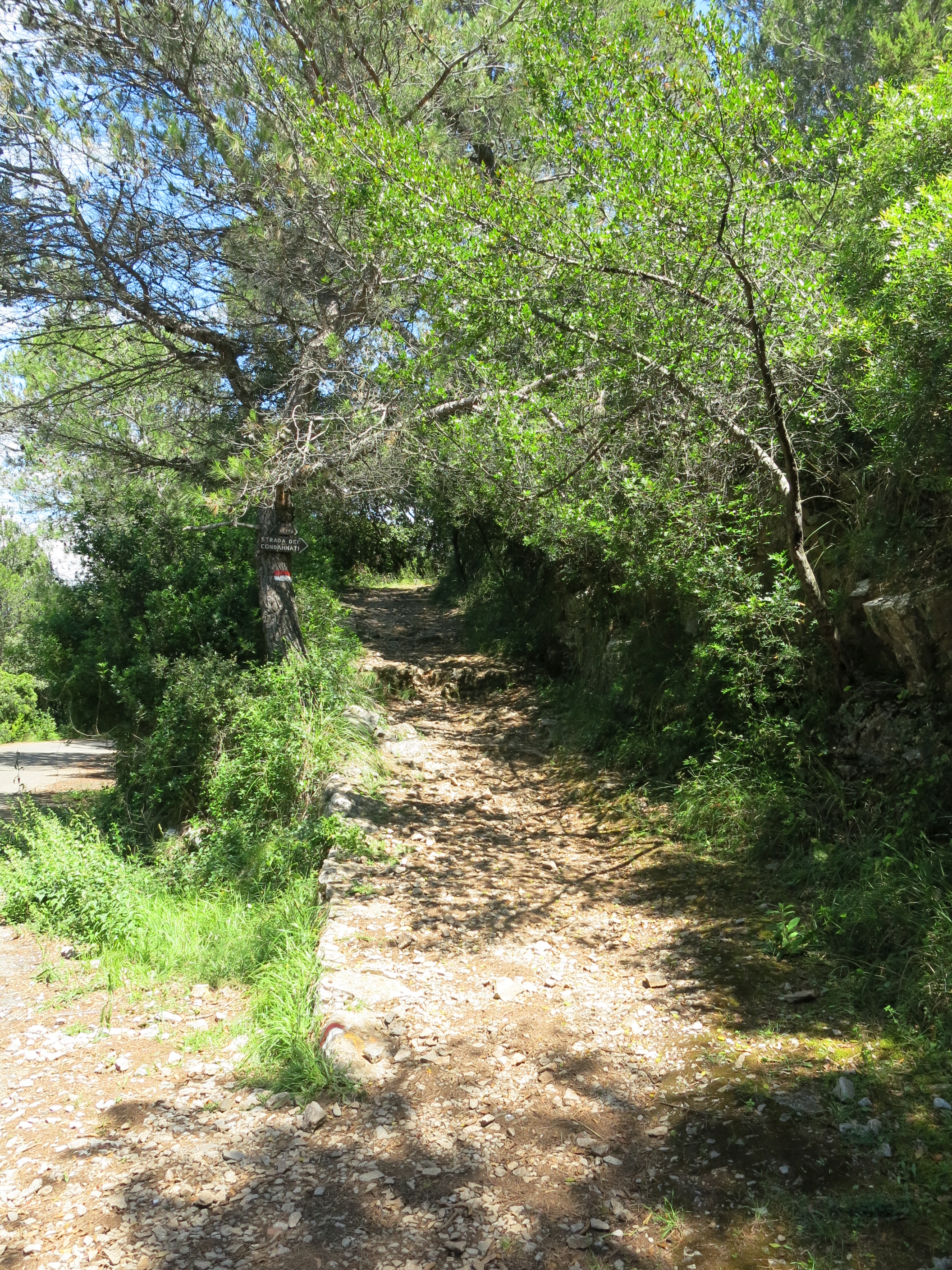 Hiking path on Palmaria island (Liguria, Italy).